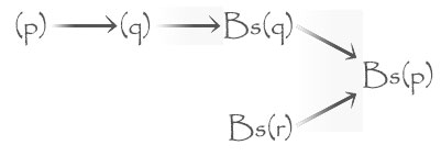 Alvin Goldman's First Model of Causation Epistemology